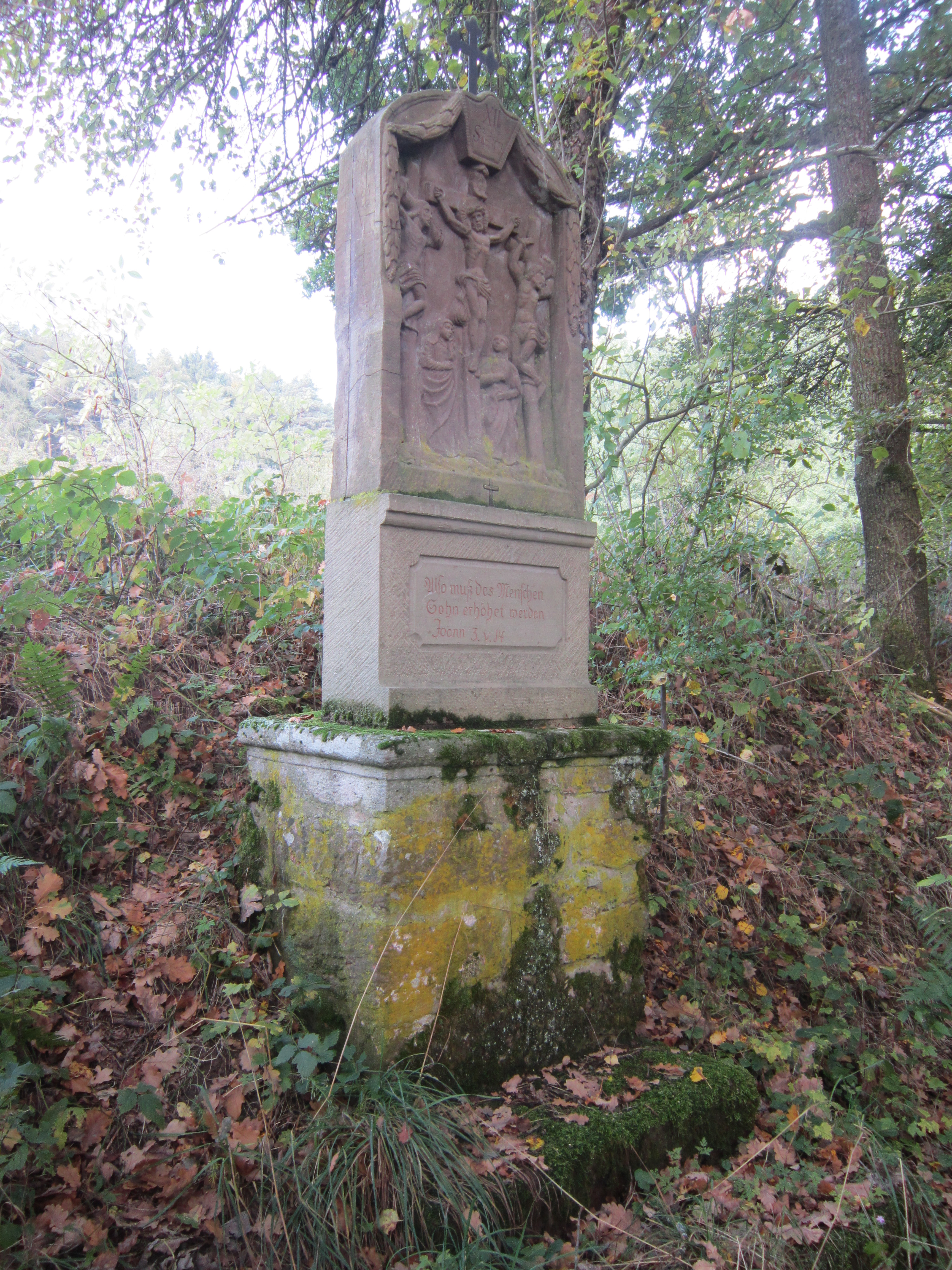 12th station of the Way of the Cross at the "Kreuzkapelle" in Zahlbach, a quarter of the German town of Burkardroth in Lower Franconia (Bavaria).